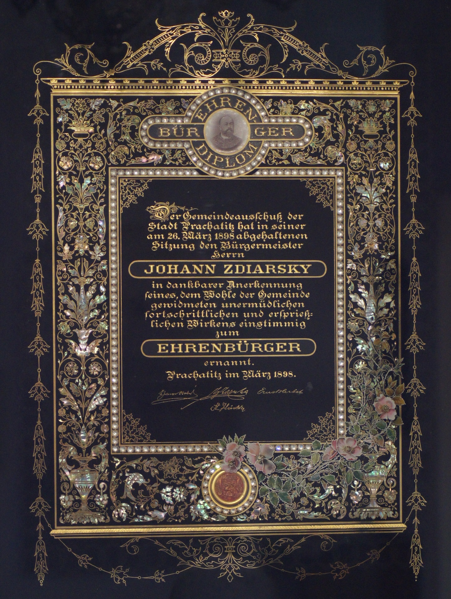 Johann Zdiarsky, diploma as honorary citizen of Prachatice , March 1898